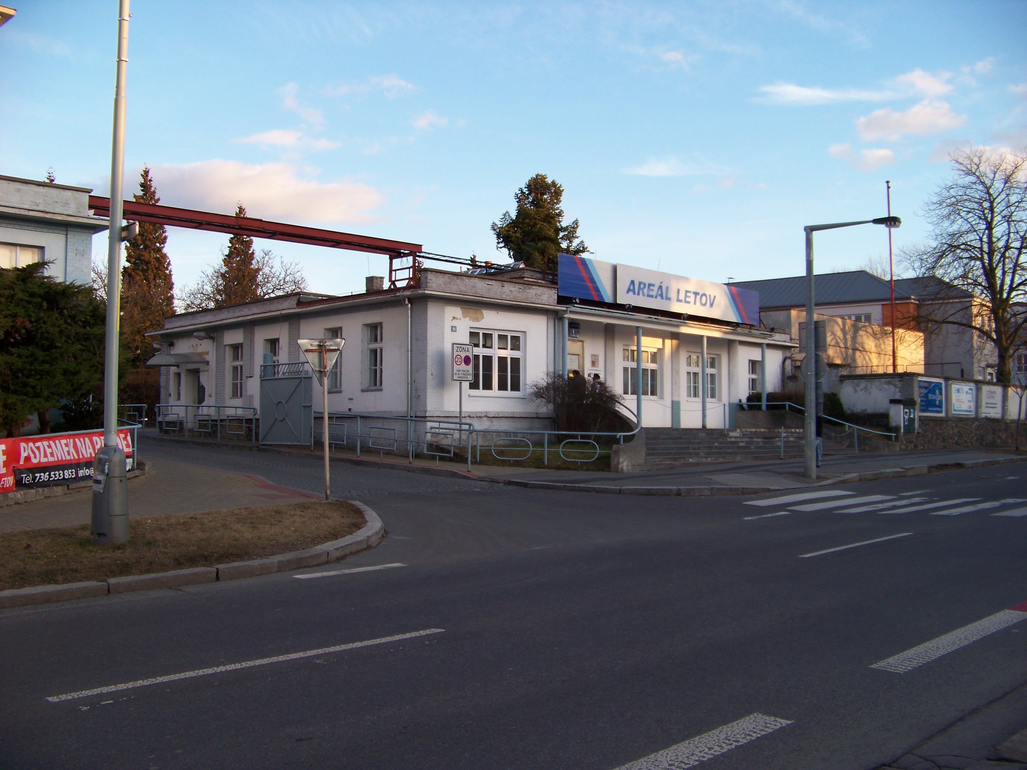 Prague-Letňany, the Czech Republic. Beranových street, Letov factory, a gatehouse. - OpenStreetMap(Info)